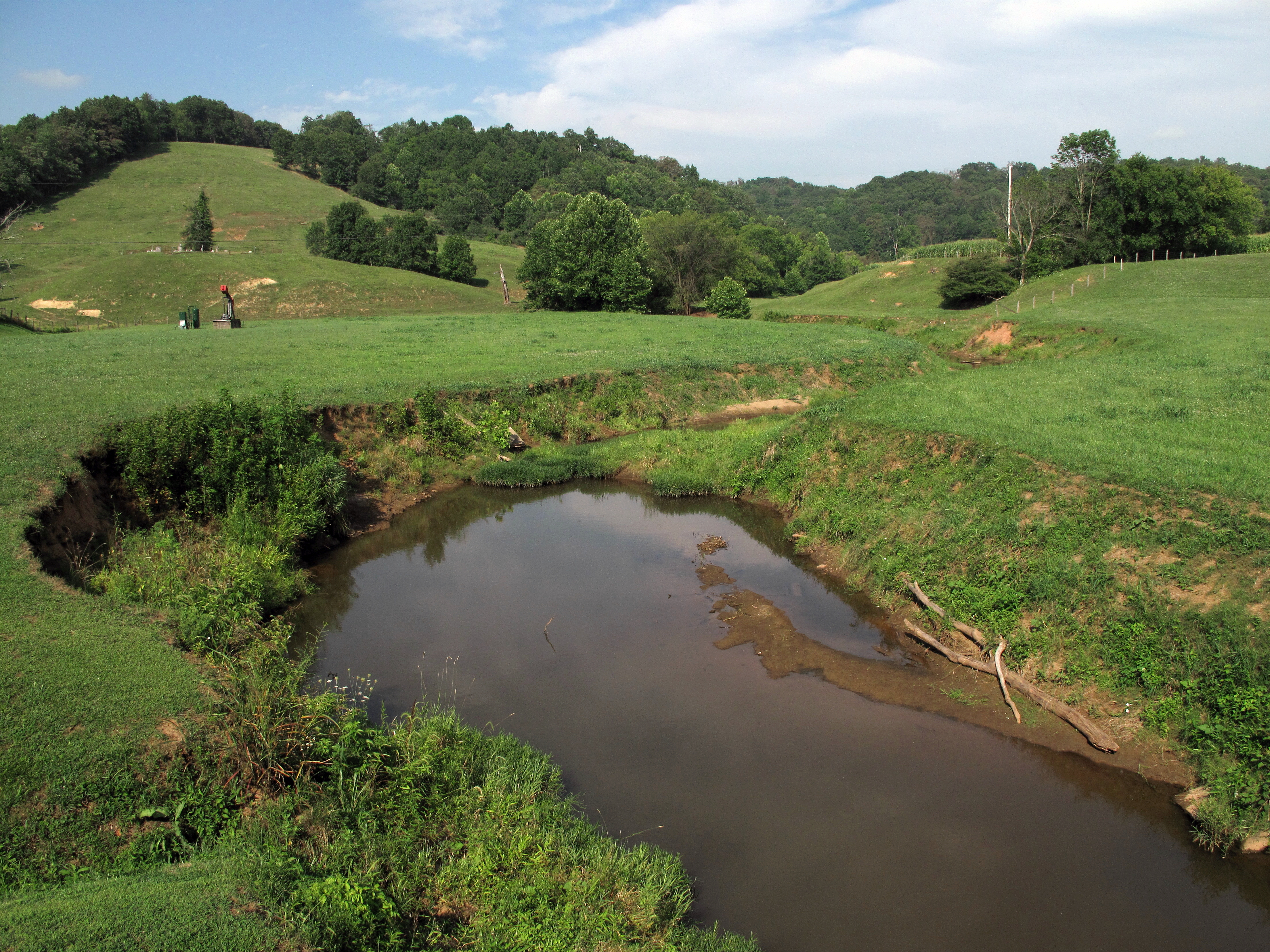 Pond Creek as viewed upstream from County Road 25 in southern Wood County, West Virginia.